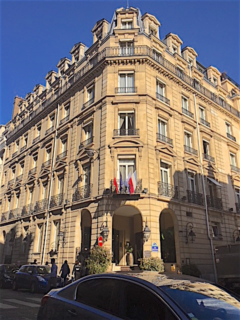 Hotel Balzac, Paris